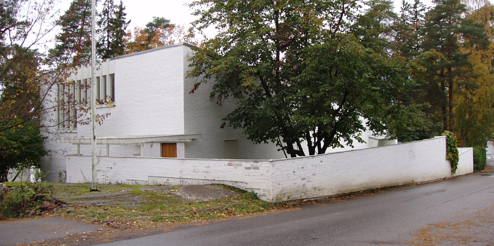 An exterior view of the Alvar Aalto studio, Helsinki (1954-56)